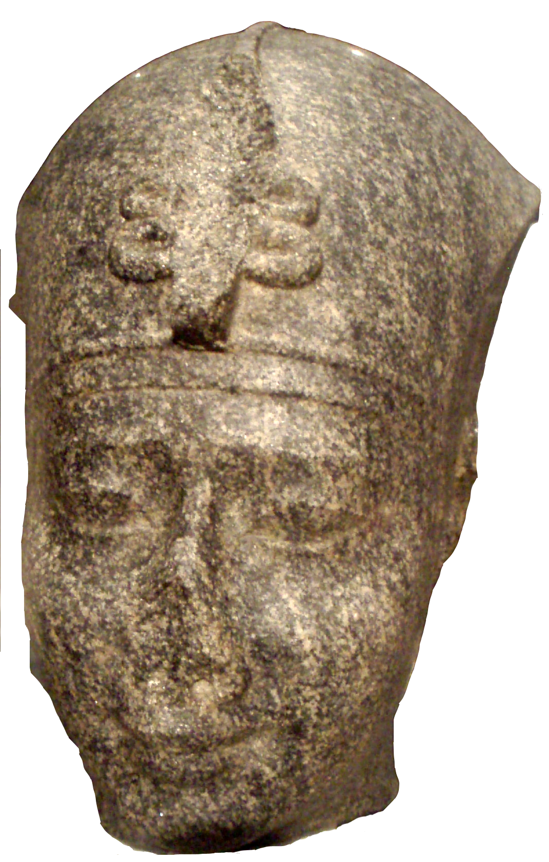 Granodiorite statue head of the pharaoh Nectanebo II, from the 30th dynasty, circa 362-343 B.C. Background cropped out using PhotoShop. Now residing in the Museum of Fine Arts, Boston.